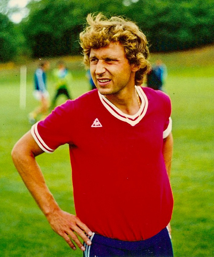 German former international Heinz Flohe in training camp with 1. FC Köln pre to season 76-77 at Sportschule Grünberg Germany